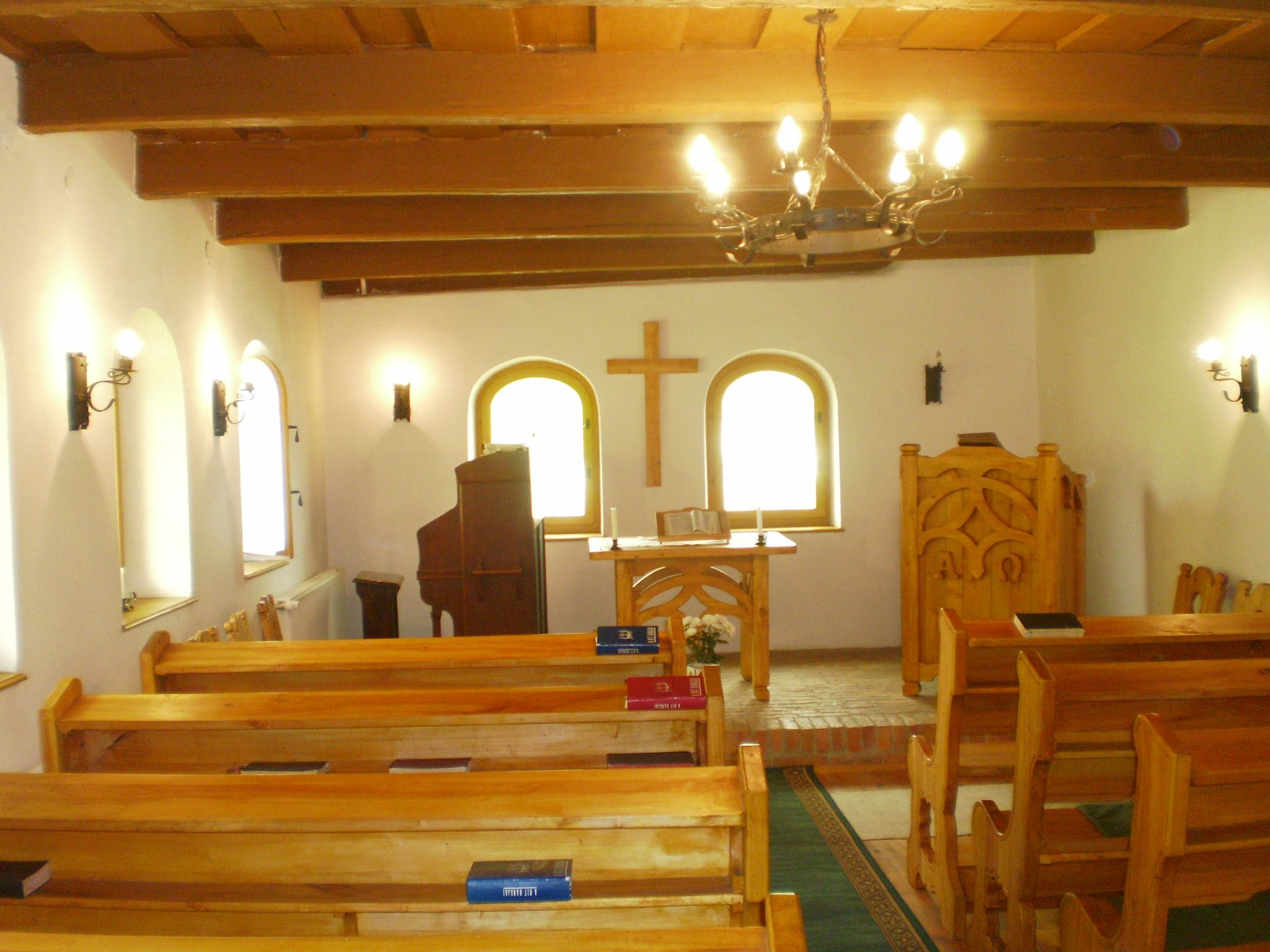 Baptist chapel in Neszmély